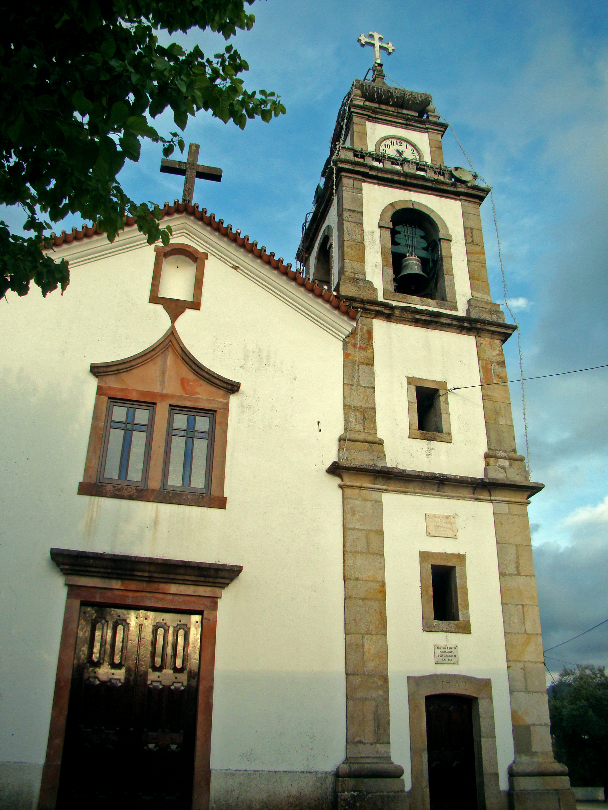 This file was uploaded for Wiki Loves Monuments in Portugal with the unique identifier 97009490.